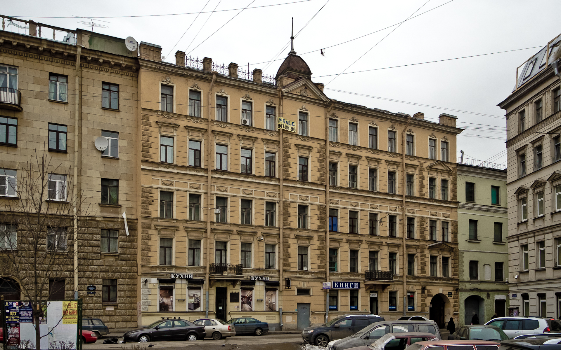 Saint Petersburg, 21, Blokhina street